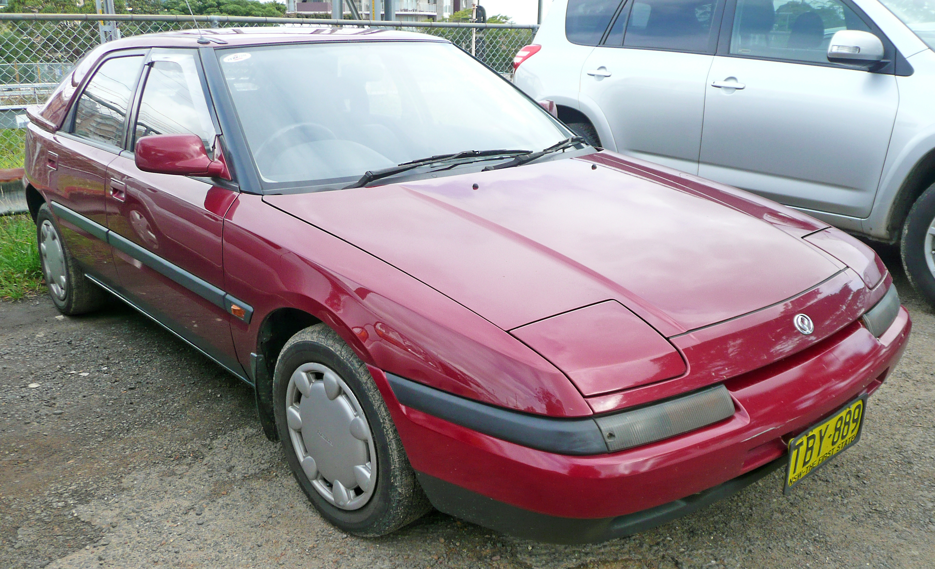 1994 Mazda 323 (BG Series 2) Astina 5-door hatchback. Photographed in Sutherland, New South Wales, Australia.